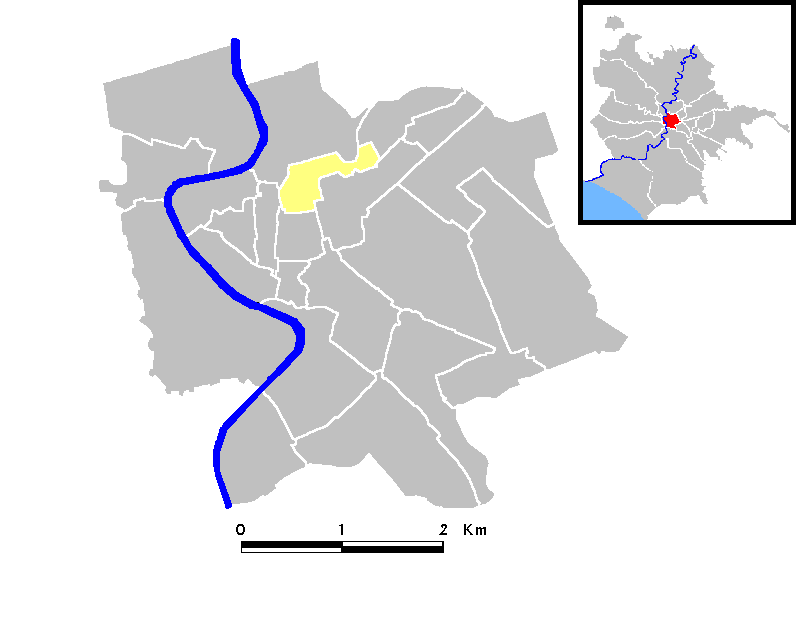 Locator maps of Rome (rioni)